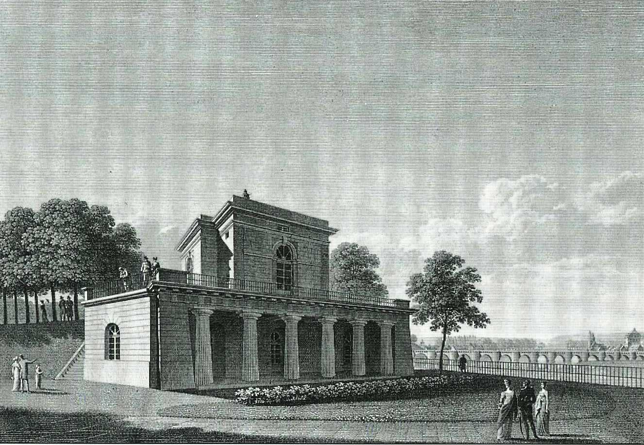 Drittes Belvedere